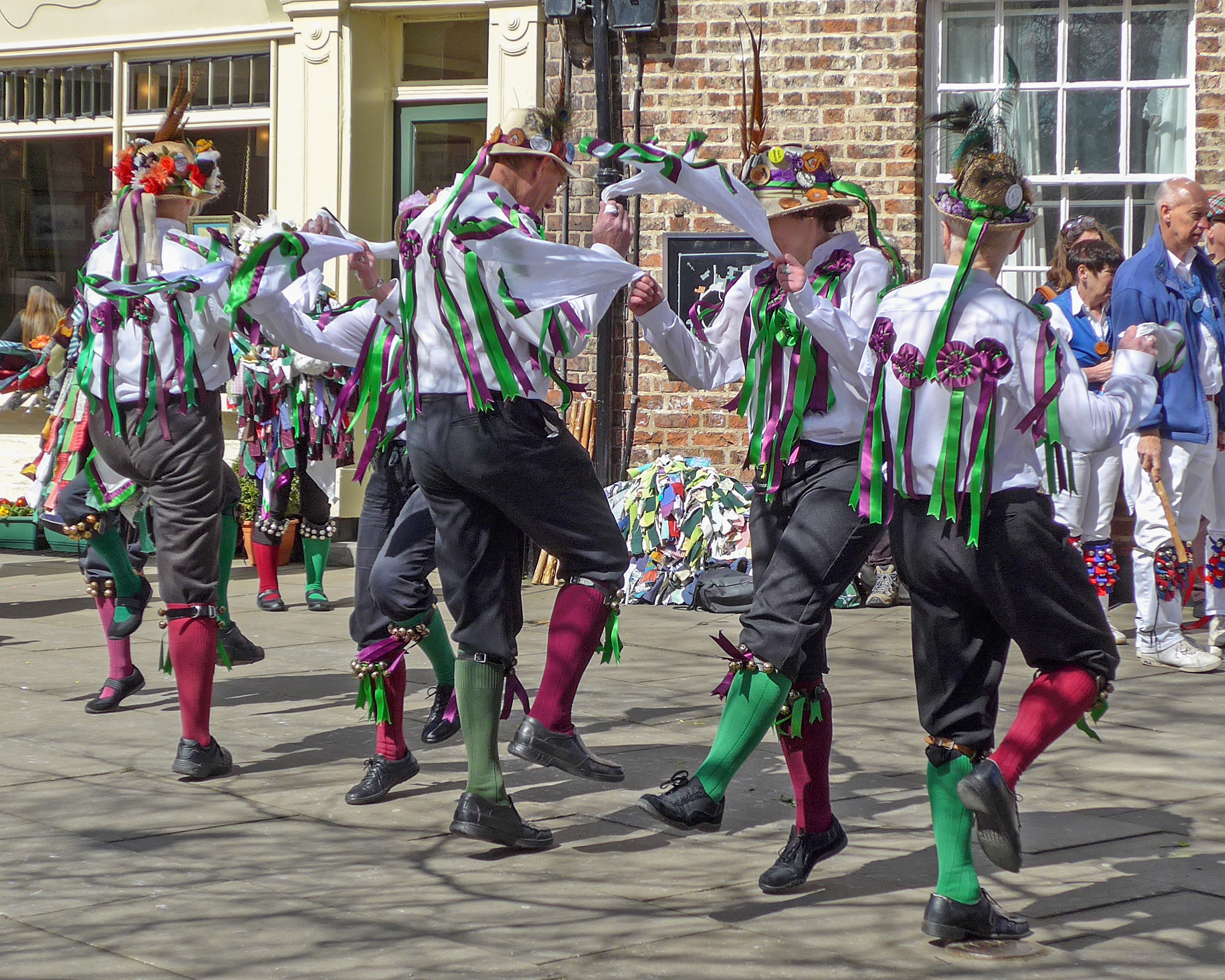 Joint Morris Organisation Day of Dance